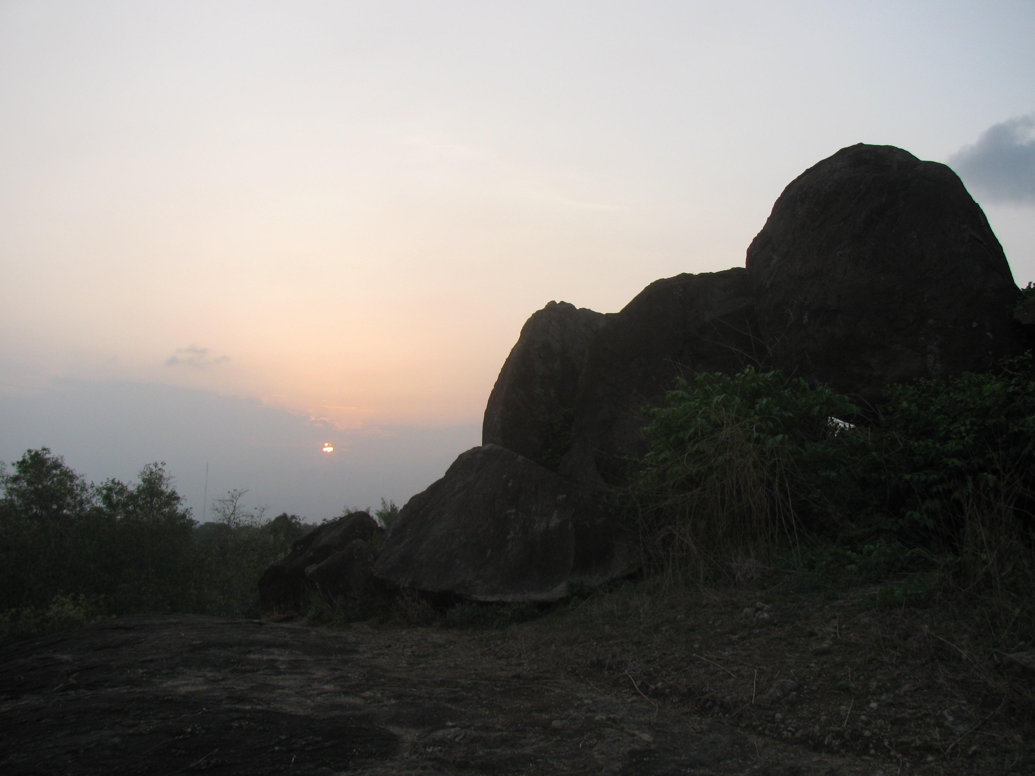 Sunset as viewed from Elephant Rock in Ramavarmapuram, Thrissur District, Kerala, India